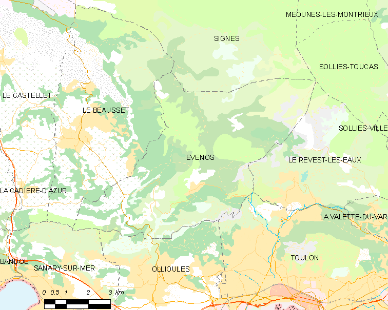 Map of French municipality Évenos